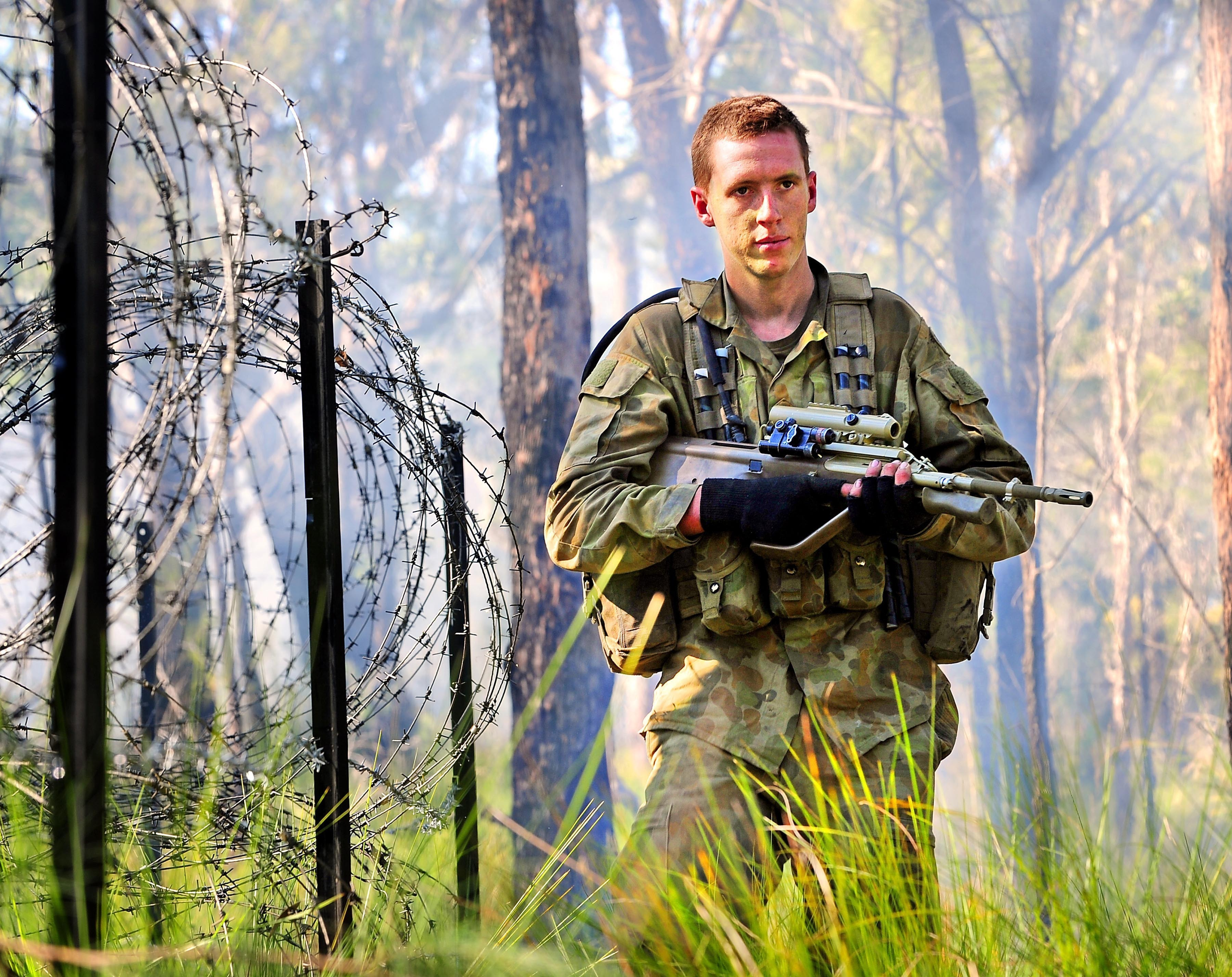 Pte Darren Brown (Brisbane, Queensland), 7RAR, on patrol in the Shoalwater Bay training area during a combined-arms battle group live-fire assault as part of Exercise Predator's Strike. Units from the Darwin-based 1st Brigade conducted Exercise Predator’s Strike from June 28 to July 10, 2011, at Shoalwater Bay in central Queensland to prove the war-fighting skills of the battle group in the lead up to Exercise Talisman Sabre 2011. Predator’s Strike combined 1st Brigade units into a potent battle group that included 1st Armoured Regiment M1A1 Abrams tanks, 2nd Cavalry Regiment Australian light armored vehicles, 5th and 7th Battalions of the Royal Australian Regiment mechanized infantry mounted in M113AS4 armored fighting vehicles, forward observers from the 8th/12th Regiment and elements from 1st Combat Engineer Regiment, 1st Combat Signal Regiment and 1st Combat Service Support Battalion. The 1st Brigade has a distinguished history that includes five Victoria Cross winners, battle honors from Gallipoli and the Western Front, Vietnam, Iraq, East Timor and Afghanistan, and its soldiers are poised and ready to respond to a range of threats and regional events on behalf of the Australian government. Based in Darwin at Robertson Barracks, 1st Brigade is the Australian army's light armored brigade. More than 3,400 civilian and military personnel support 1st Brigade at Robertson Barracks. (The 7th Battalion of the Royal Australian Regiment – including support elements from other 1st Brigade units – is based at RAAF Edinburgh, outside Adelaide, South Australia.) Exercise Talisman Sabre (July 11–29 2011) is a major bilateral exercise designed to train Australian and United States forces in planning and conducting combined operations in order to improve Australian–U.S. combat readiness and interoperability. Talisman Sabre 2011 Photo by Andrew Dakin Date Taken:07.08.2011 Location:SHOALWATER BAY, QL, AU Related Photos